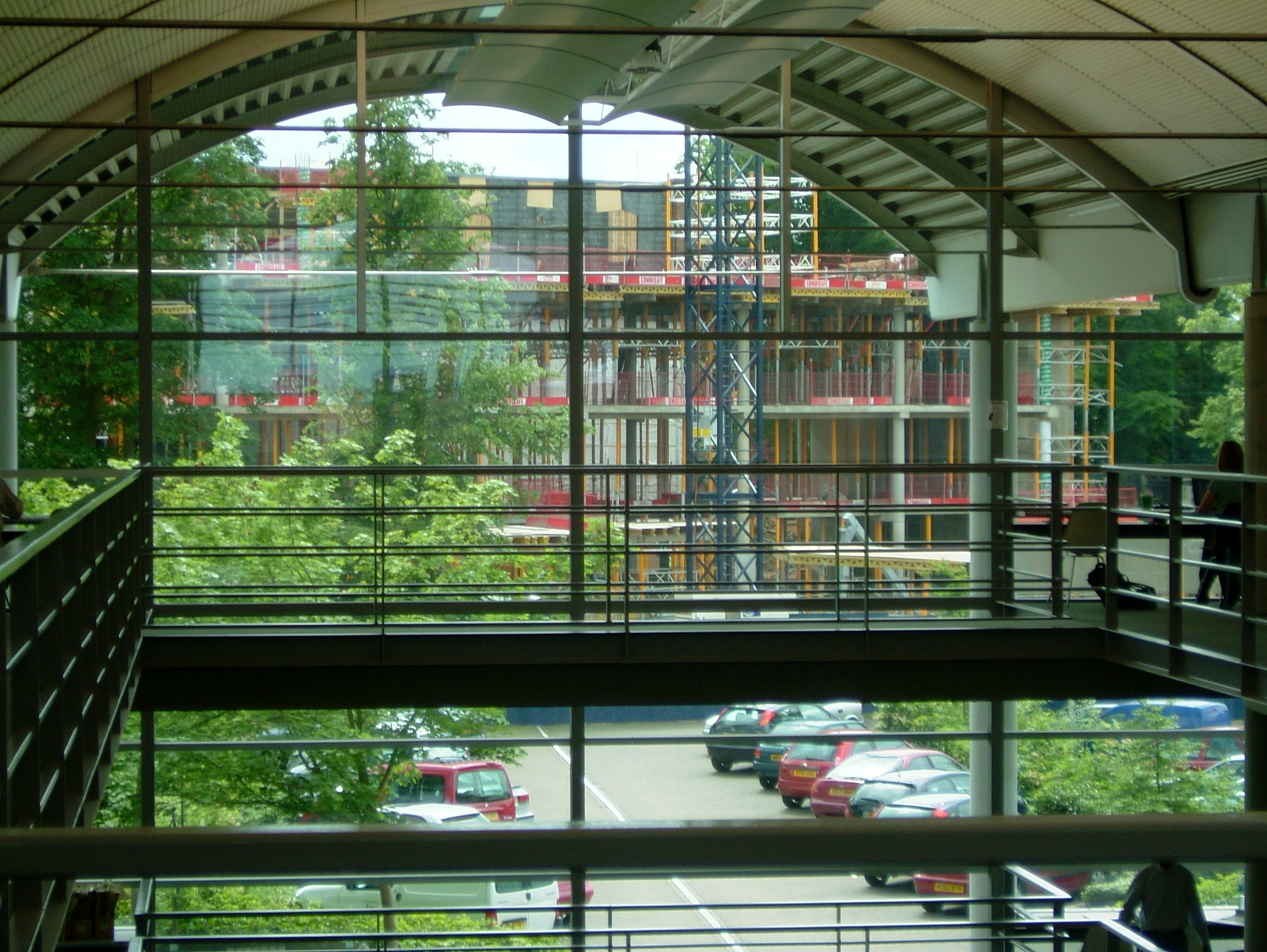 View from the library of the new School of Health under construction, June 2007